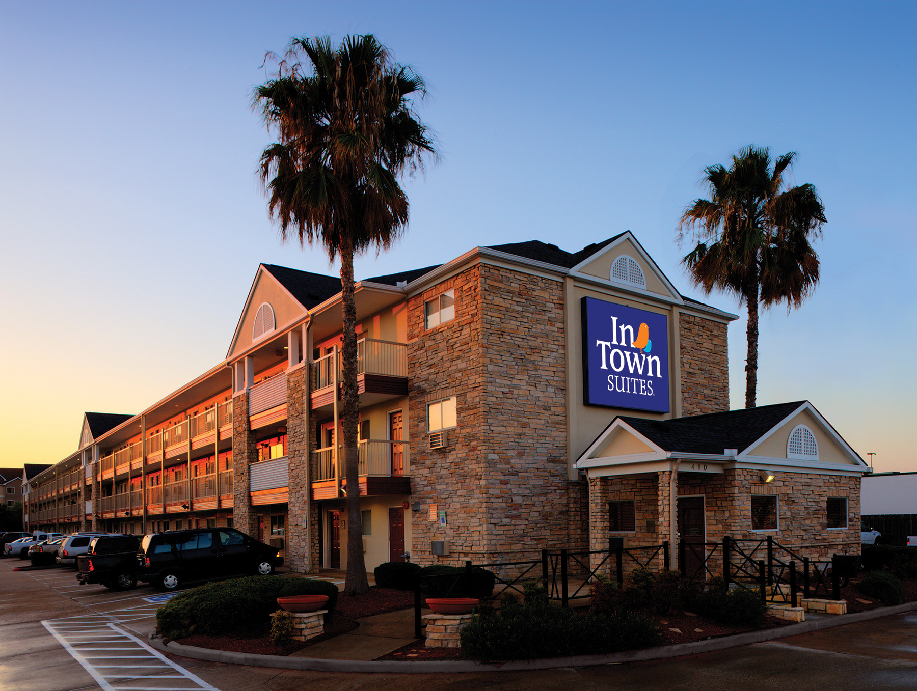 InTown Suites location with recently updated signage and logo.